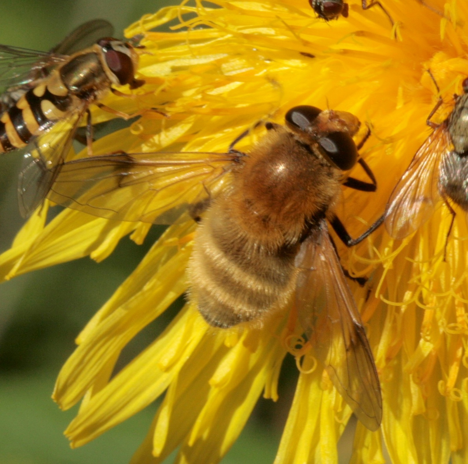 Arctophilia superbiens - a species of hoverfly